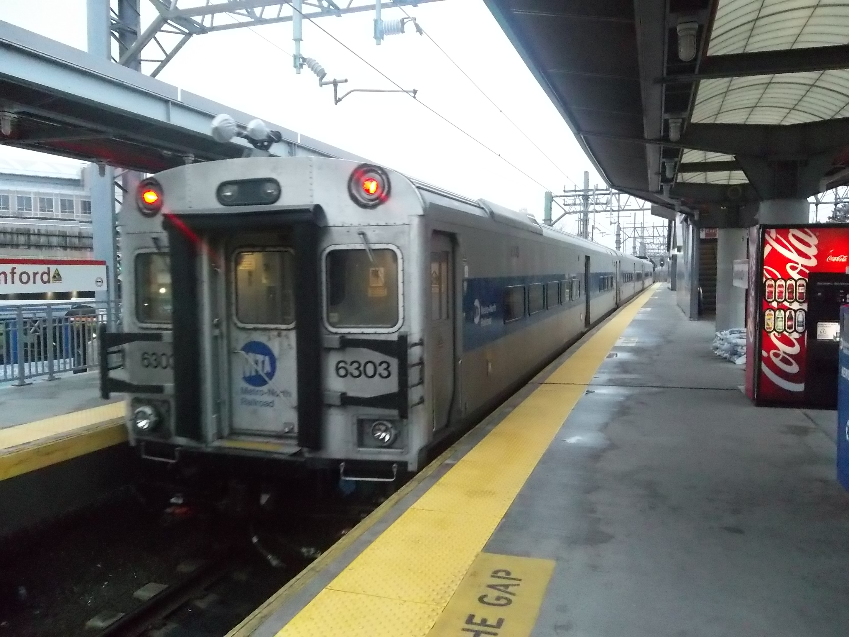 Bombardier Shoreiliner III Cab Car